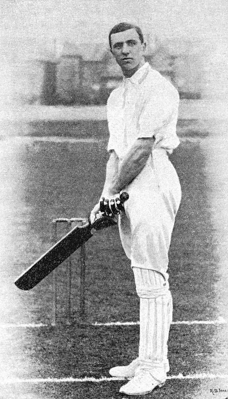 Scan of cricketer Frank Mitchell